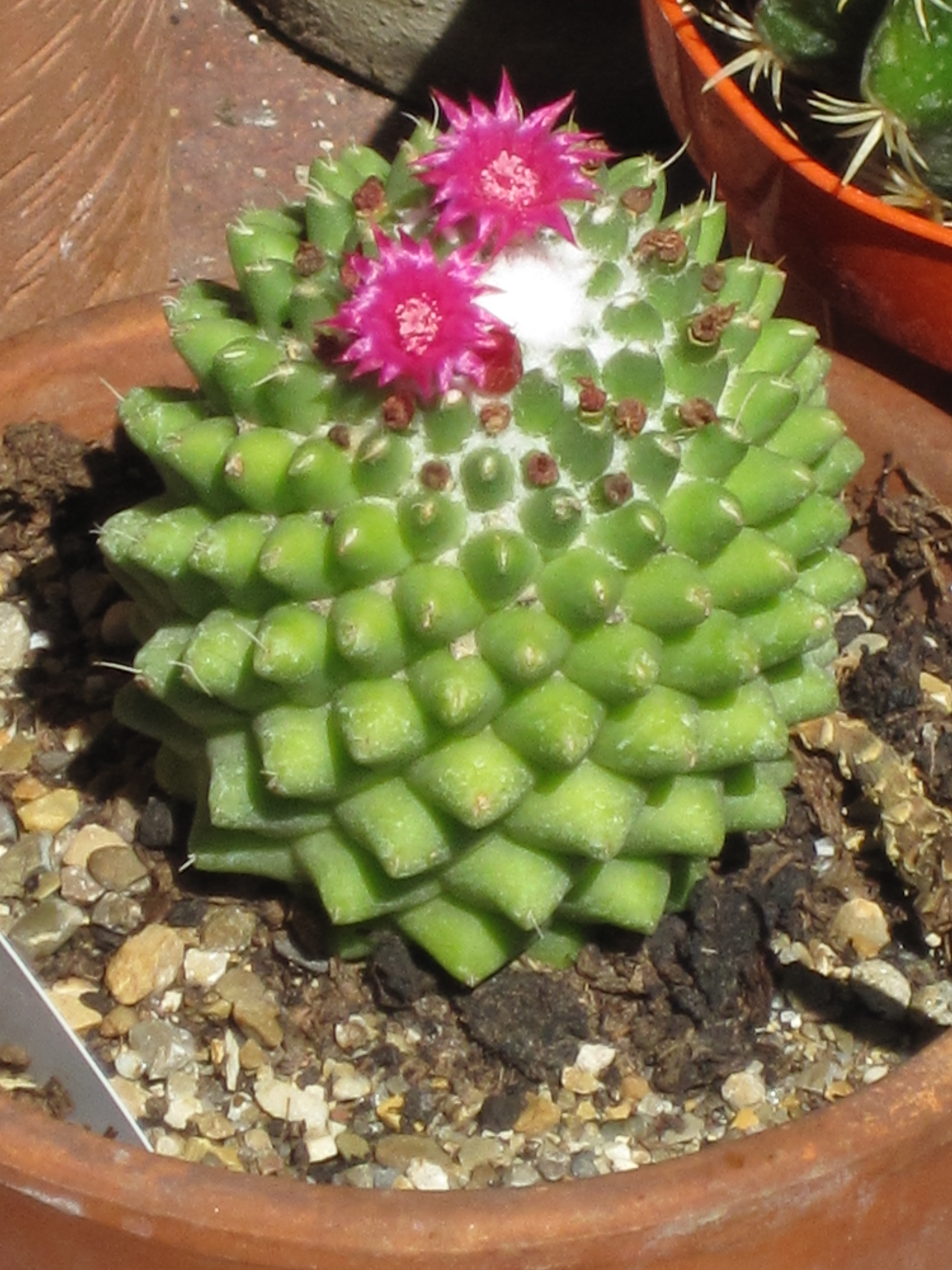 Mammillaria magnimamma toluca in flower